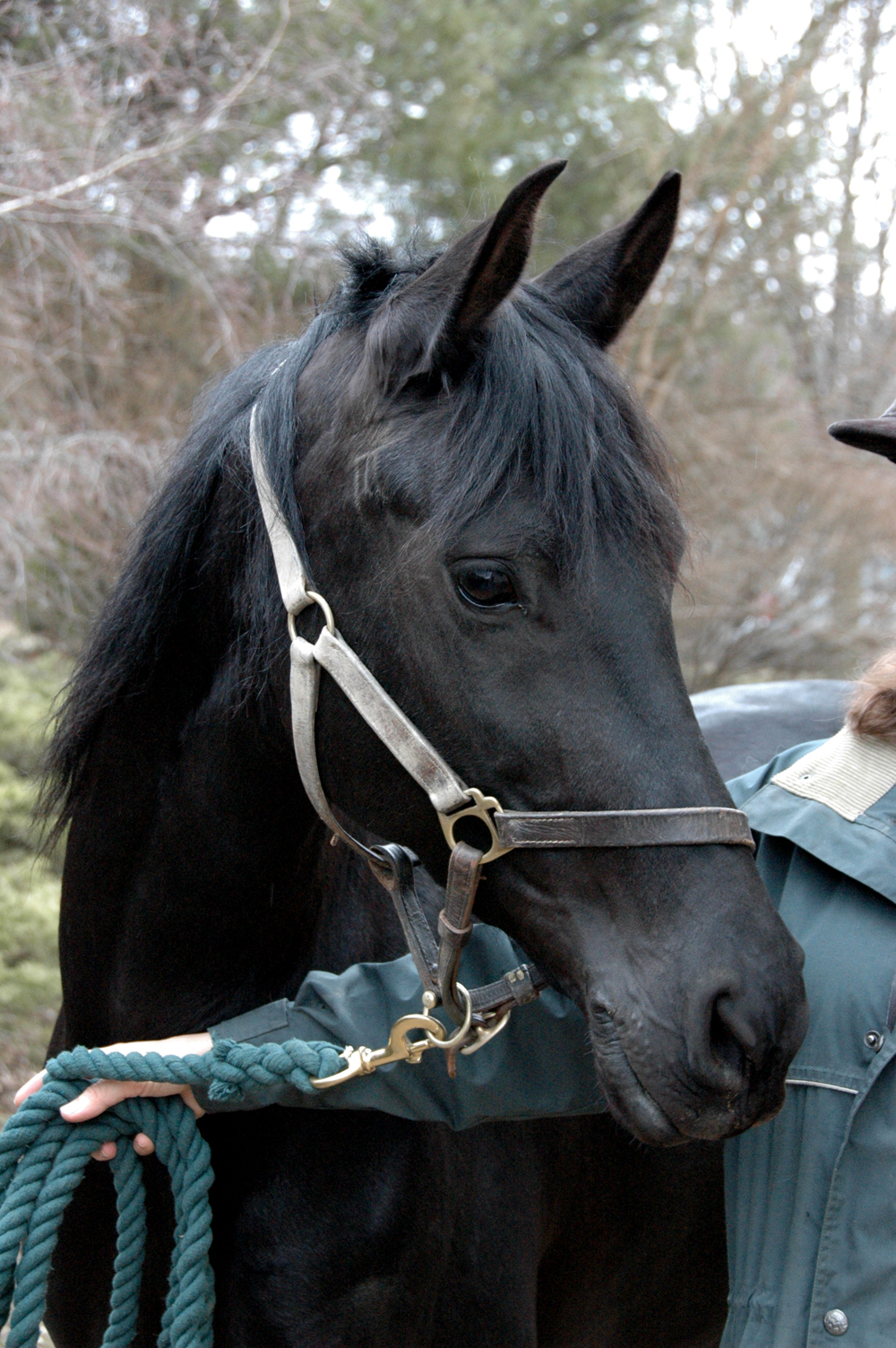 8y black friesian arabian mare in a leather halter.